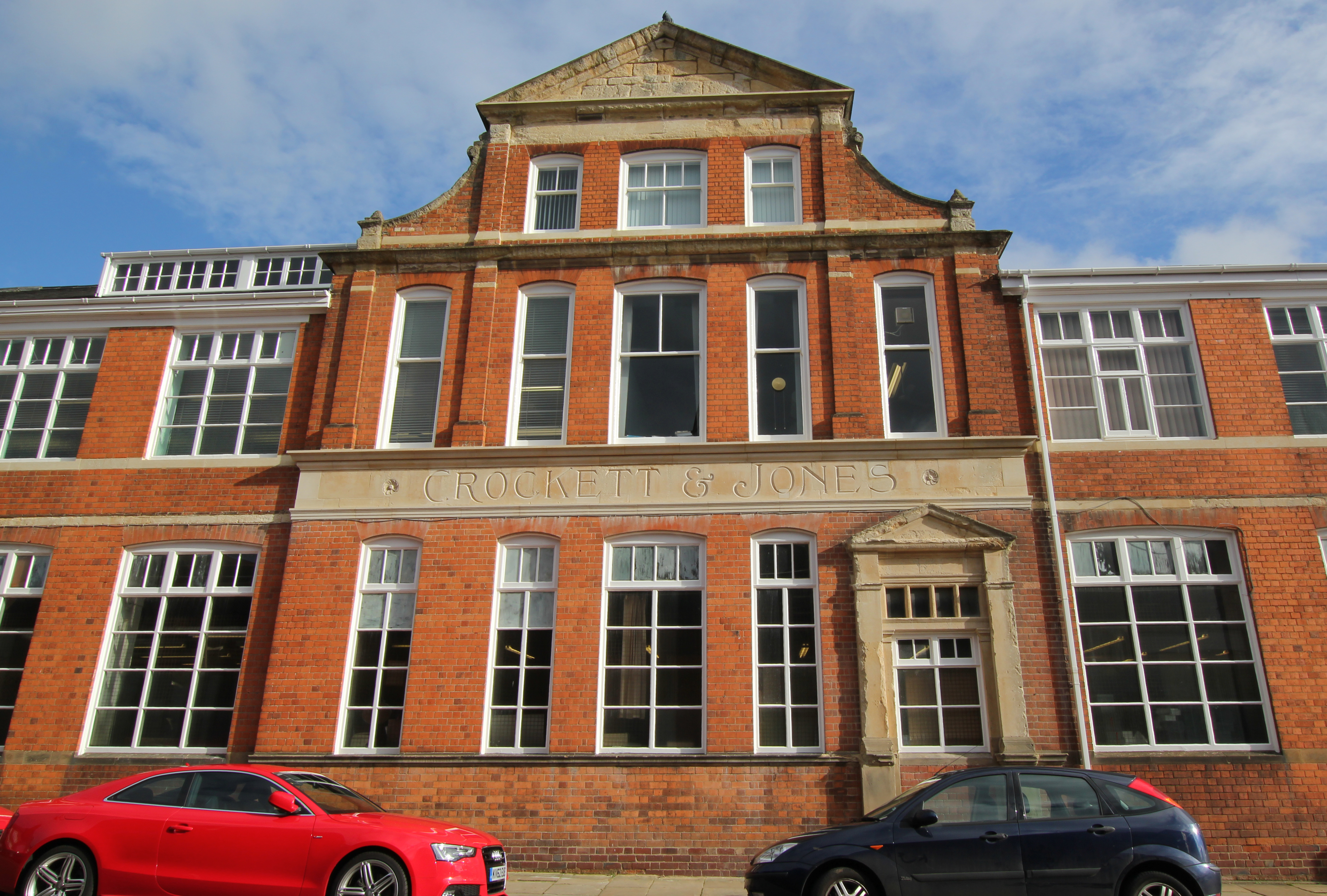 Crockett & Jones shoe works, Magee Street view, Northampton, England